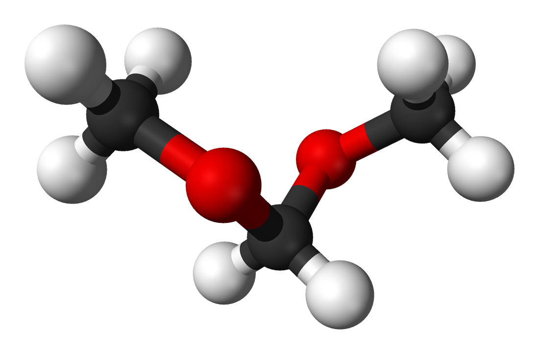 Ball-and-stick model of dimethoxymethane in its gauche-gauche conformation